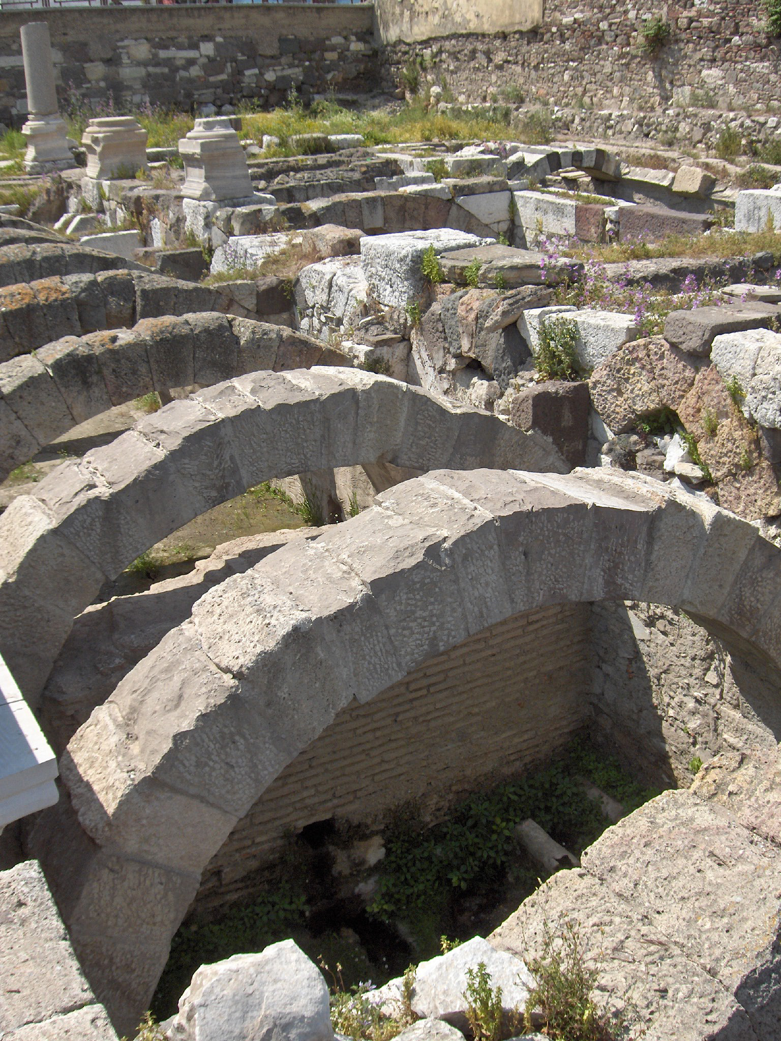 View on the agora : arched basement that supported the western stoa; ; Izmir, Turkey